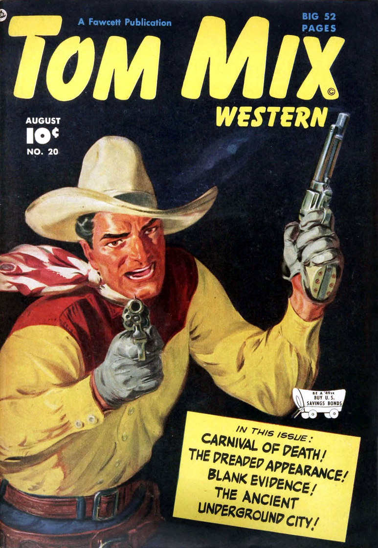 Cover art of Tom Mix Western #20, August 1949.